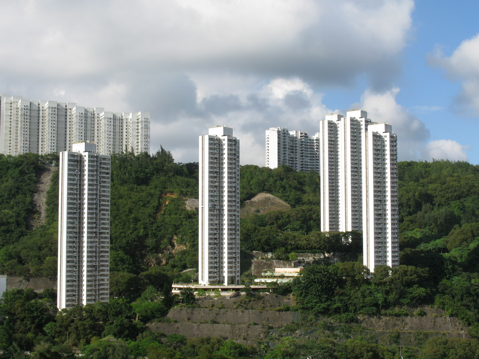 Wah Yuen Chuen